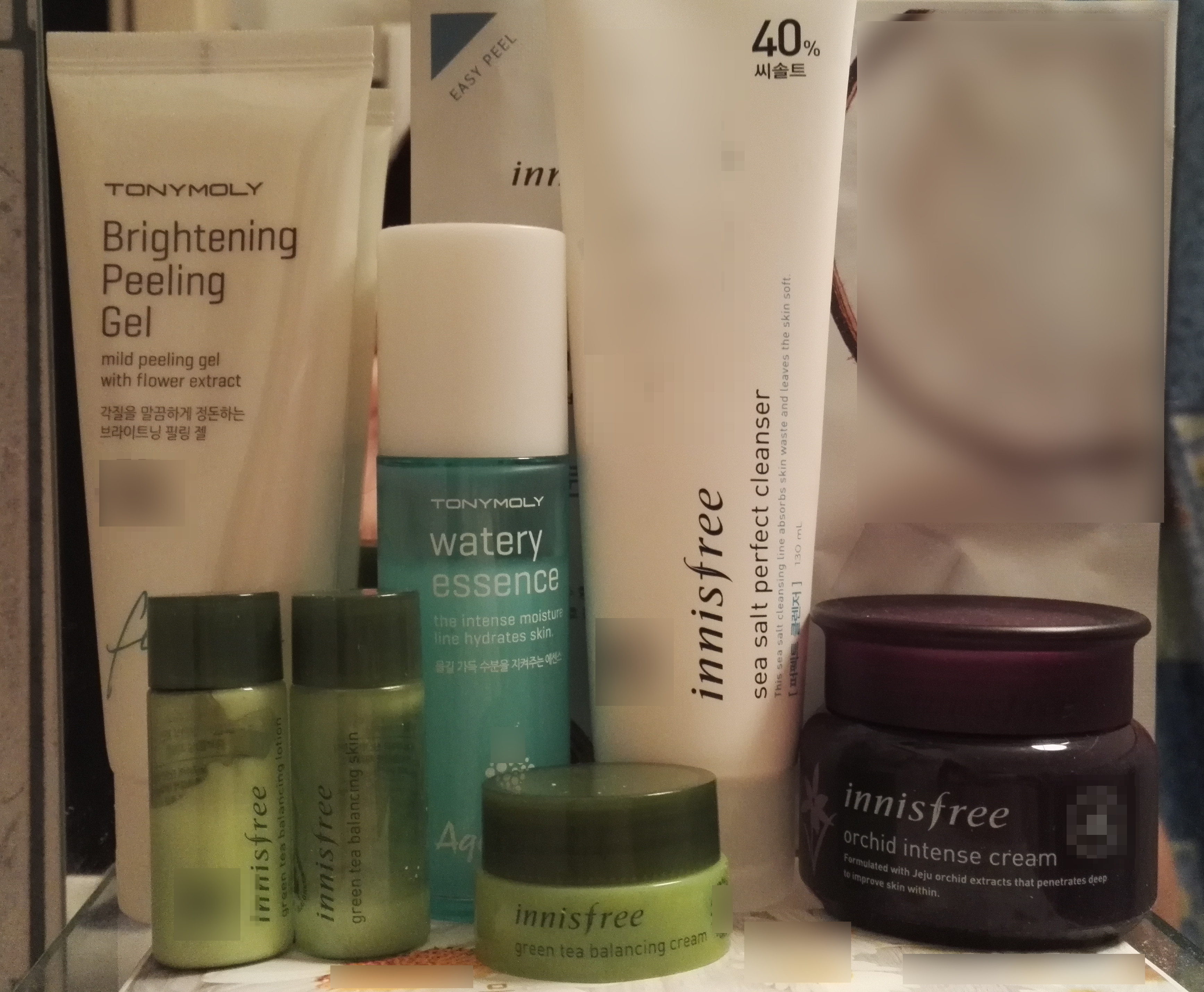 Varous cosmetics from Innisfree and Tony Moly on a shelf